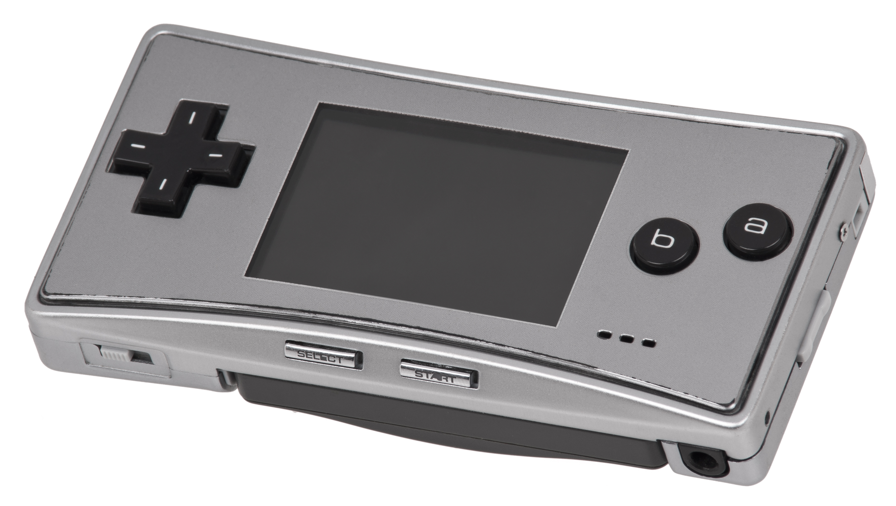 A beat-up Game Boy Micro, the last hardware version of the Game Boy Advance.